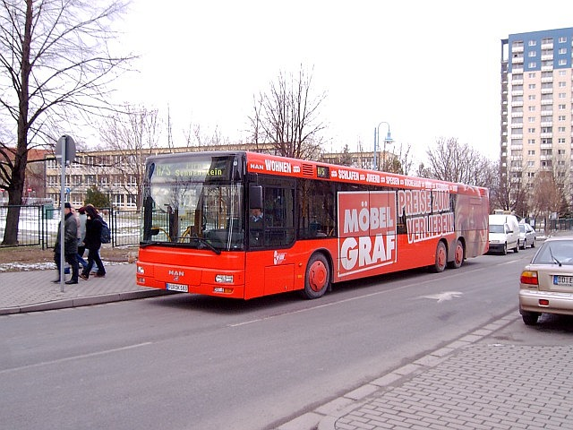 MAN NL 313-15 city bus in Pirna, Germany. Built 2003.